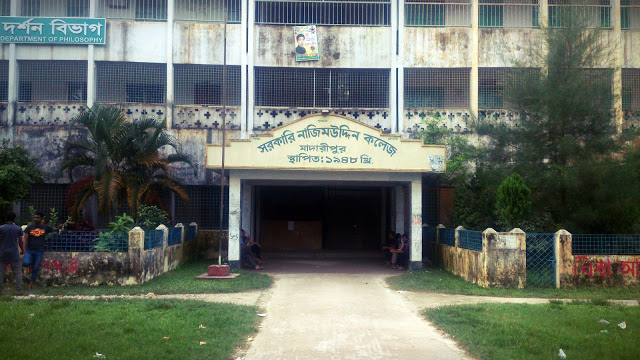 nazimuddin college